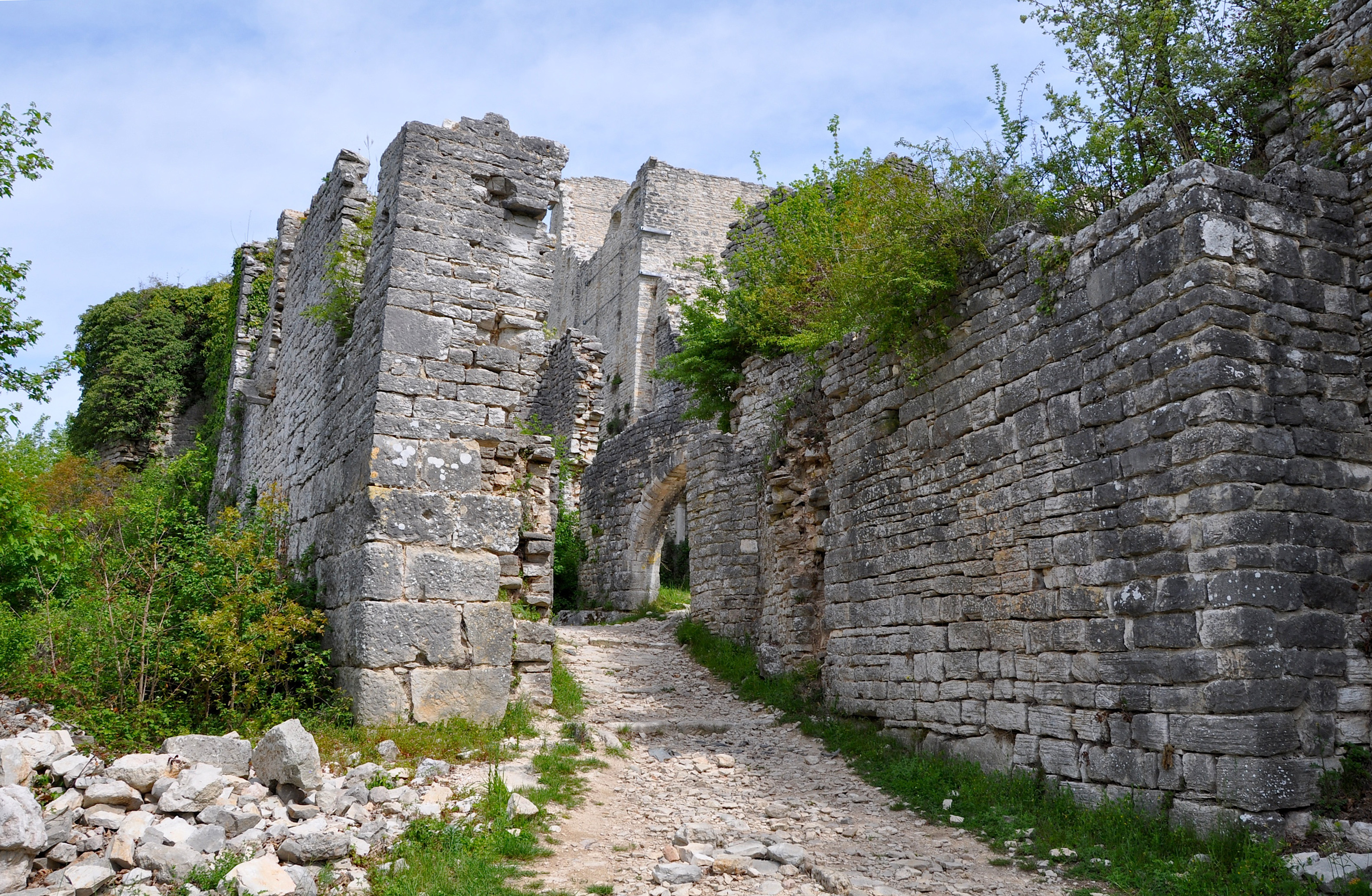 Dvigrad, abandoned medieval castle in ruins; Istra, Croatia (near Kanfanar) - OpenStreetMap(Info)